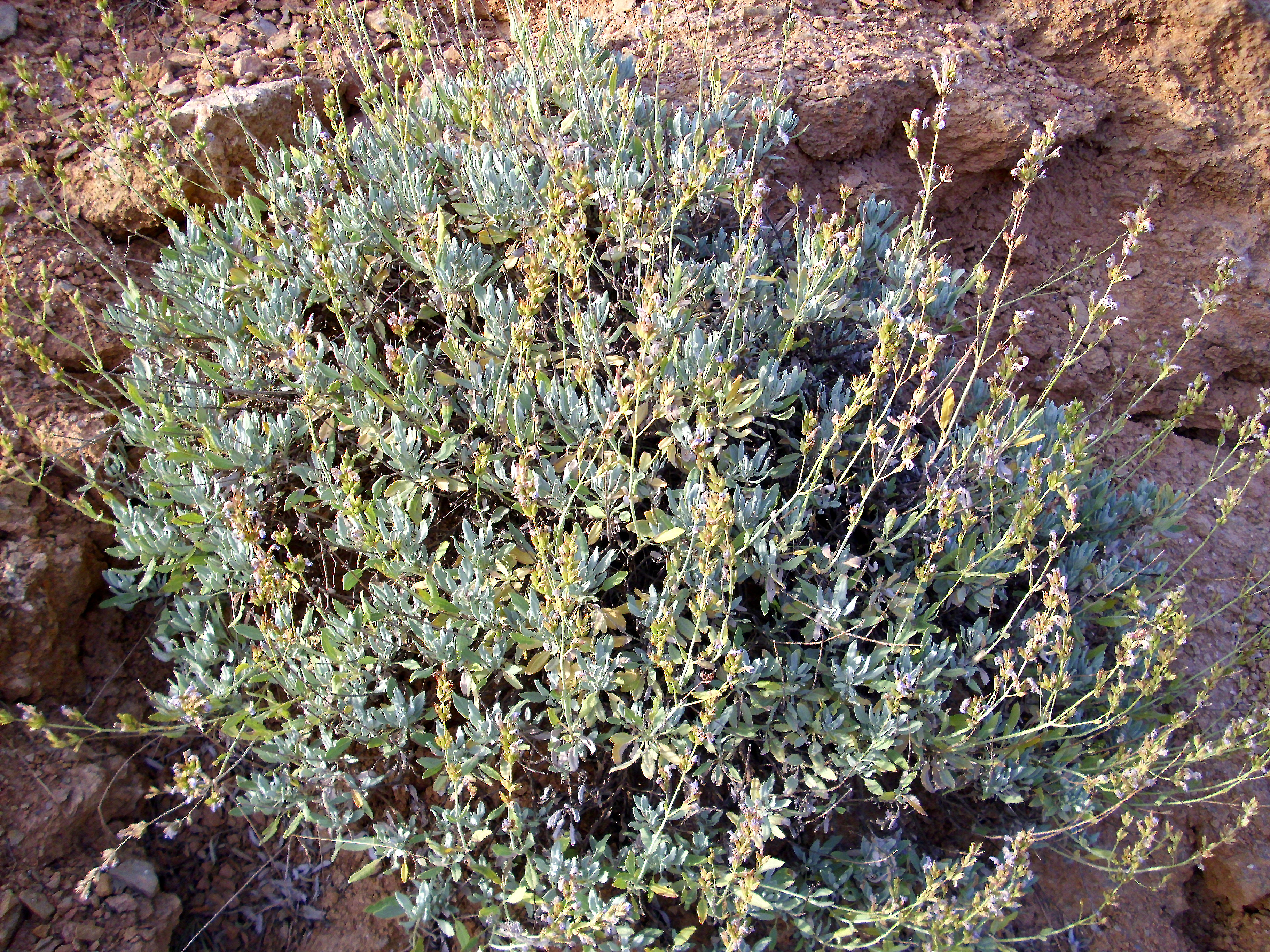 Salvia oxyodon plant, Sierra Nevada, Spain